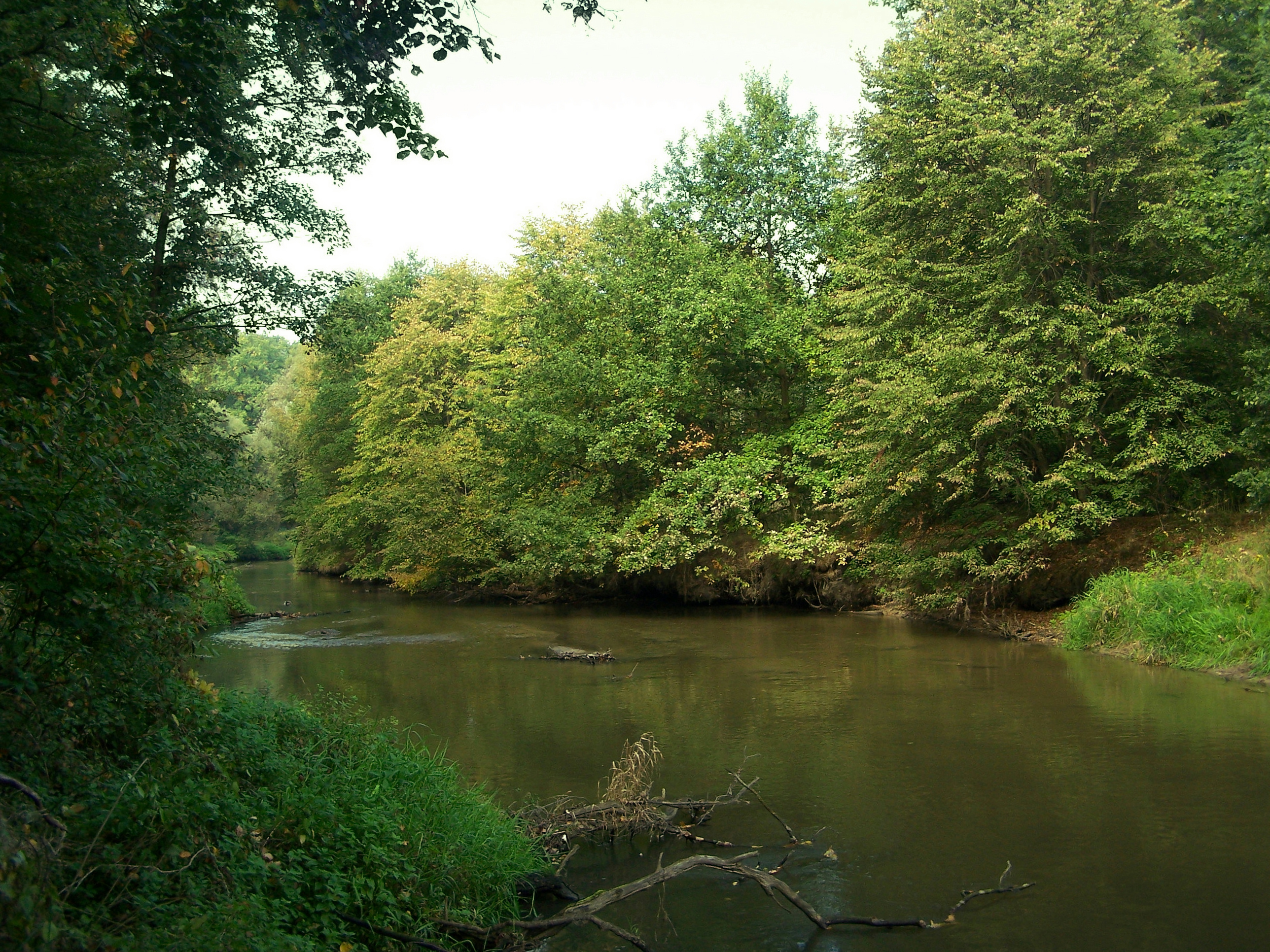 River Ruda near the village Rudy Wielkie (also known as Raciborskie or Groß Rauden), Poland.